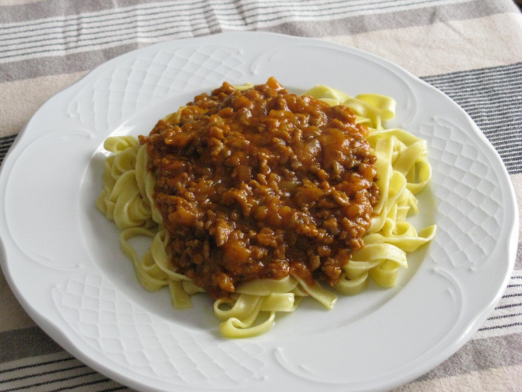 Tagliatelle bolognese